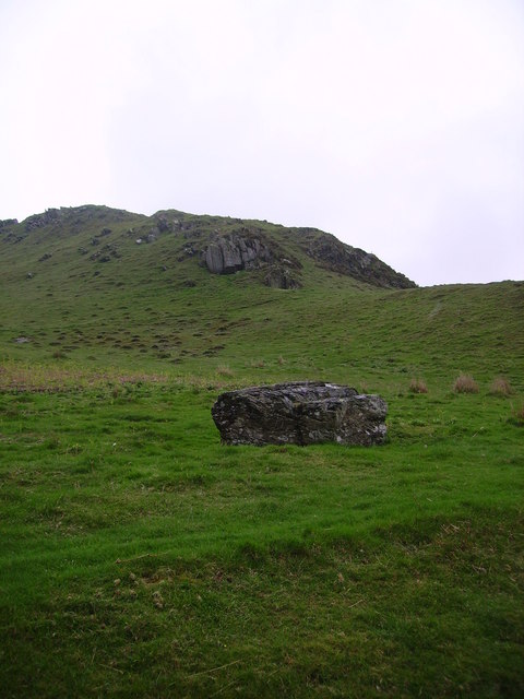 Great Burney. Looking up the gentle south west spur of Great Burney on Kirkby Moor.